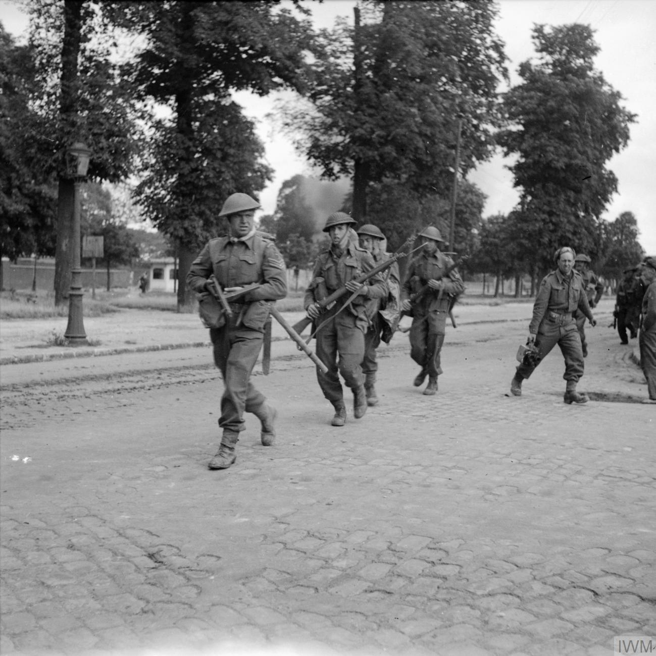 The British Army in North-west Europe 1944-45 Men of the 5th Coldstream Guards enter Arras, 1 September 1944.